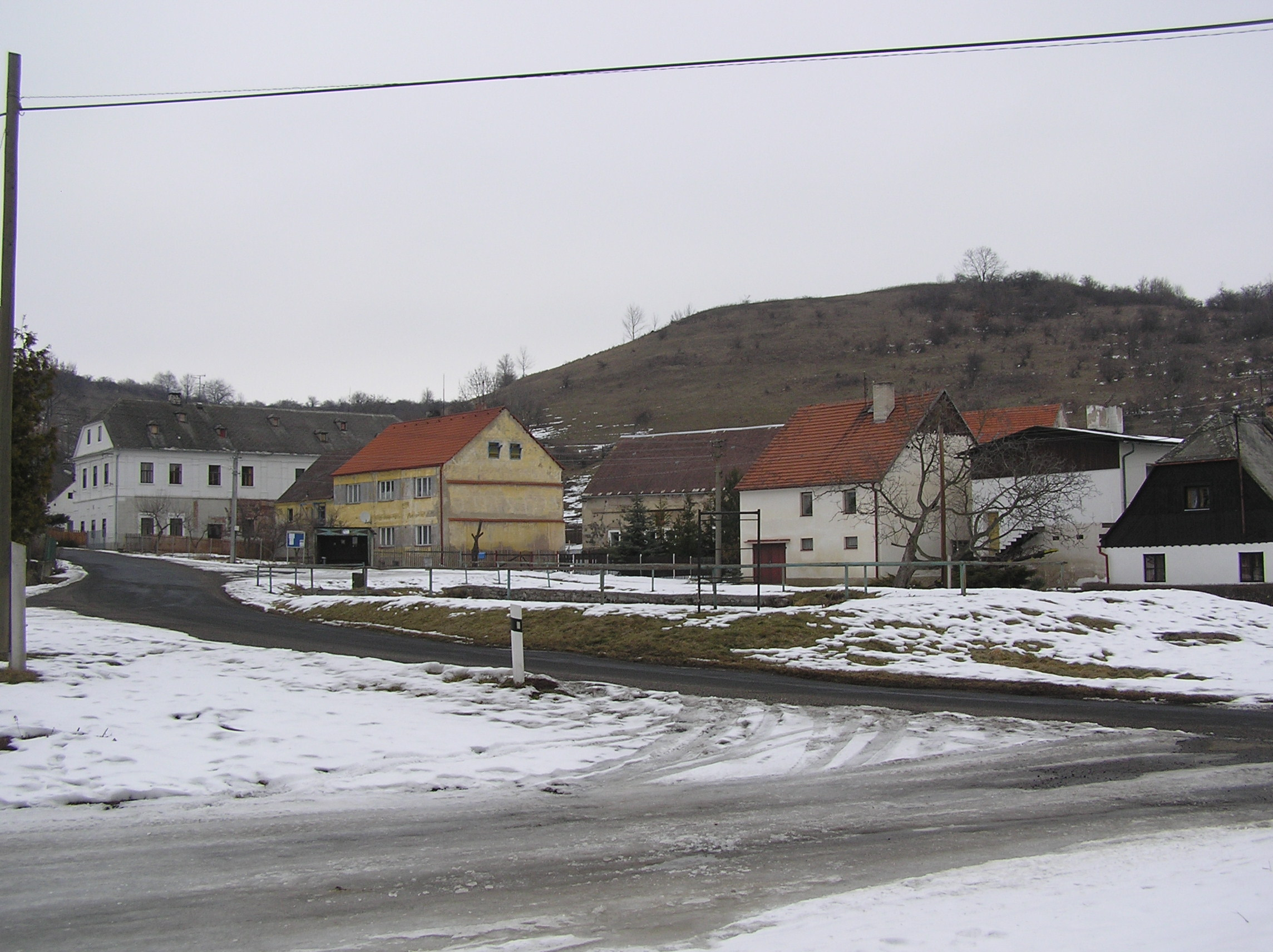 Village square in Dvérce